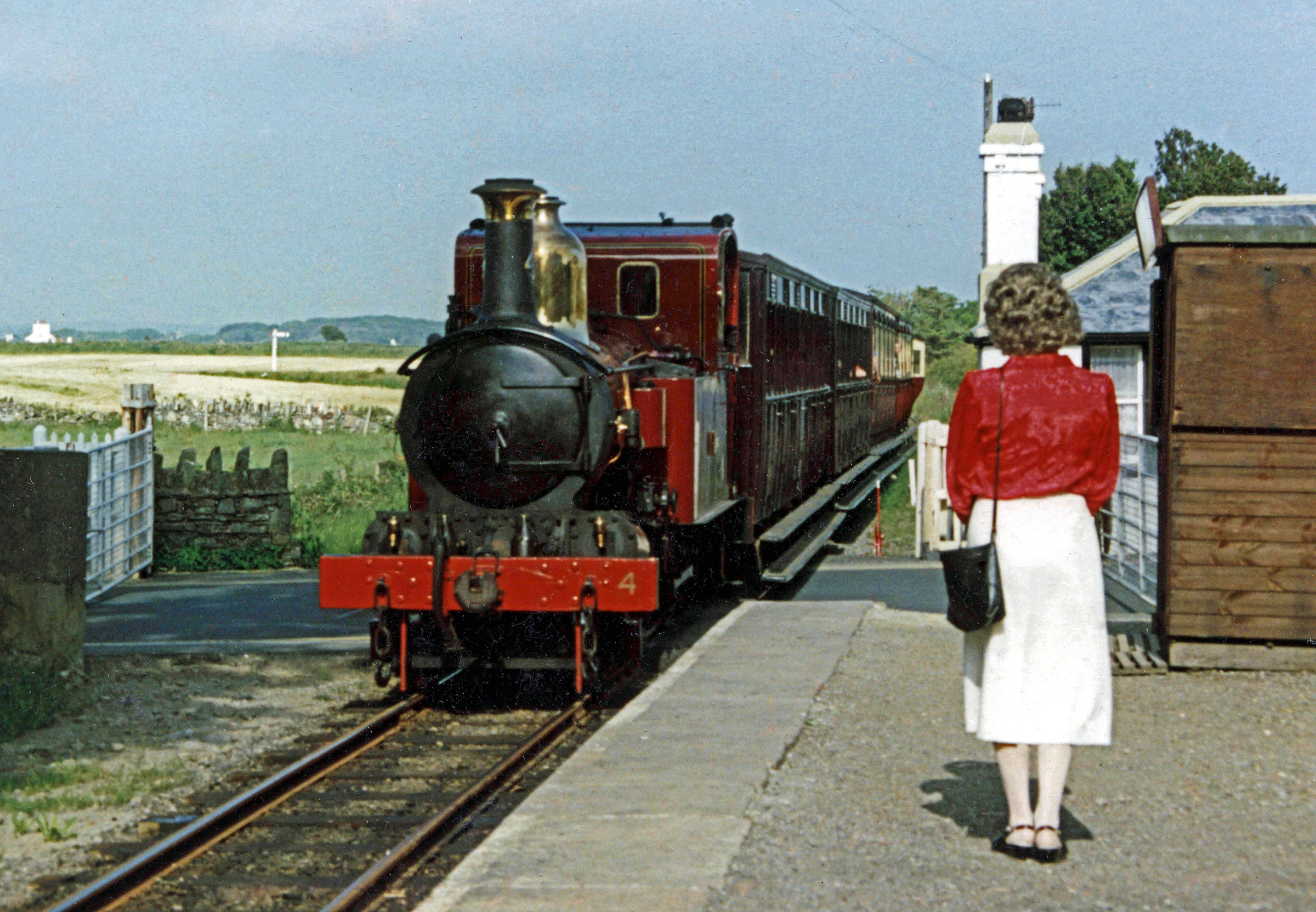 Port St Mary railway station with train from Douglas passing over the level crossing